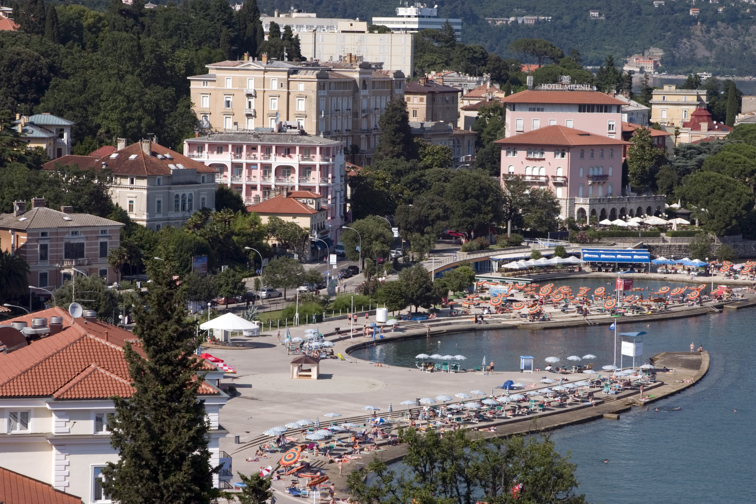 Opatija centre, Croatia.